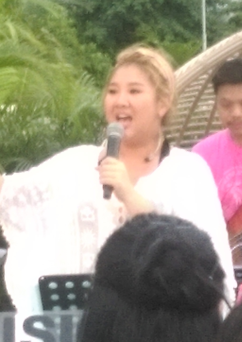 Joyce Cheng is singing at Repulse Bay